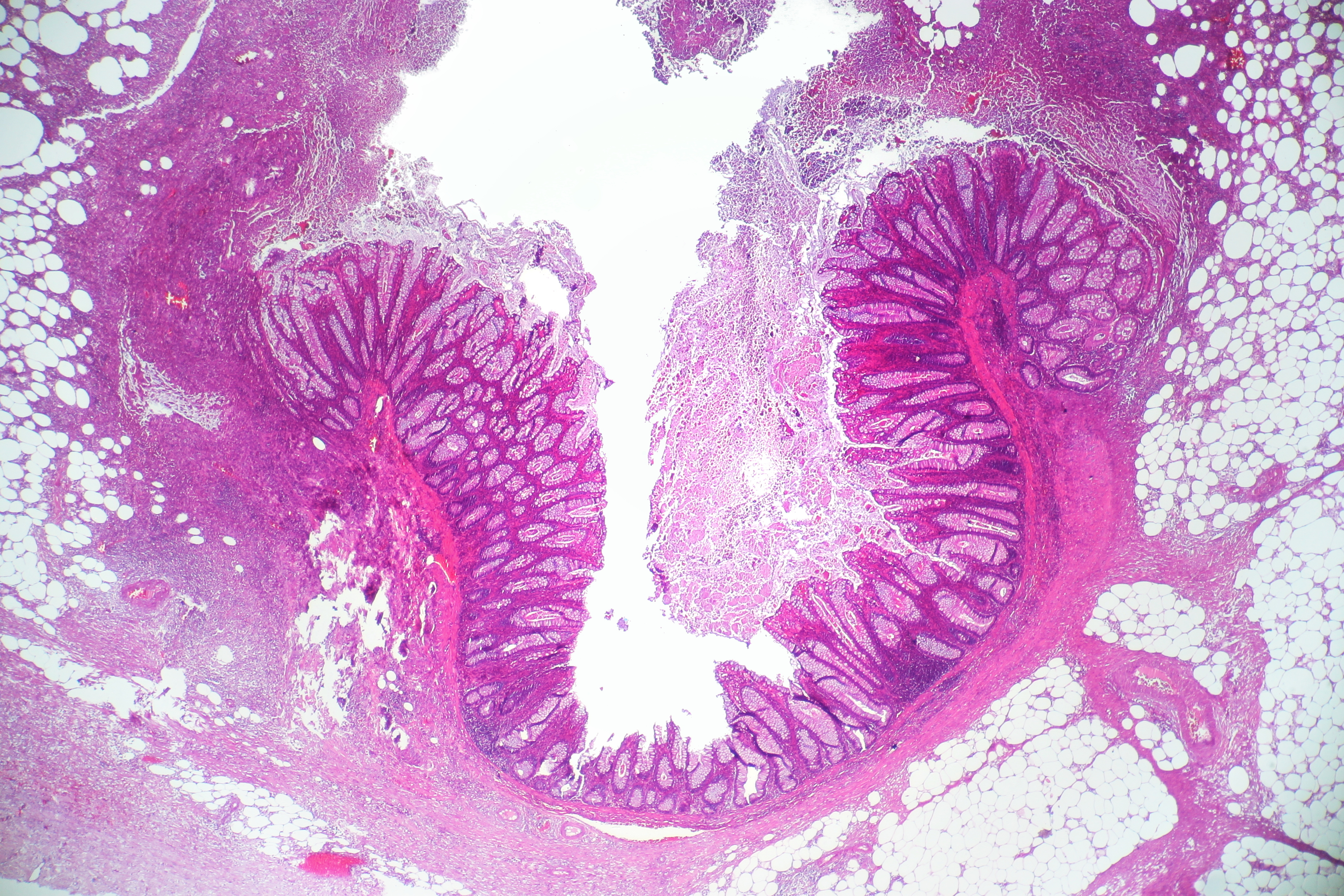 Diverticular disease with diverticulitis showing acute purulent inflammation extending into the subserosal adipose tissue. H&E Stain.